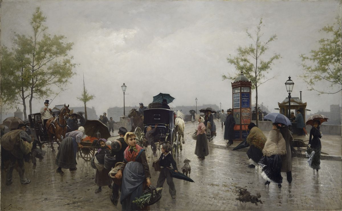 19th painting of a bridge in Lyon (France)